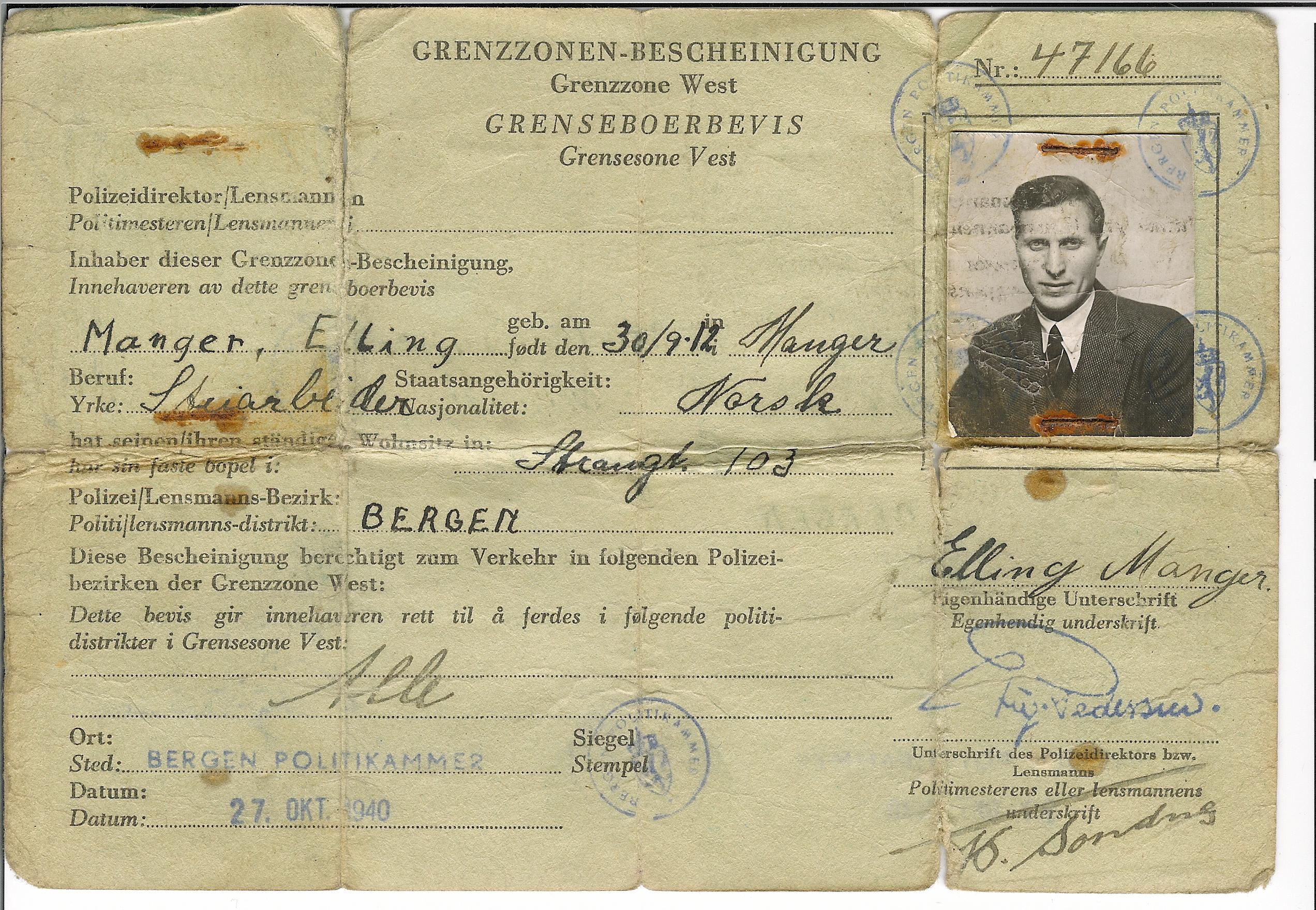 Hans Helle under cover passport named Elling Manger - world war II, Bergen, Norway